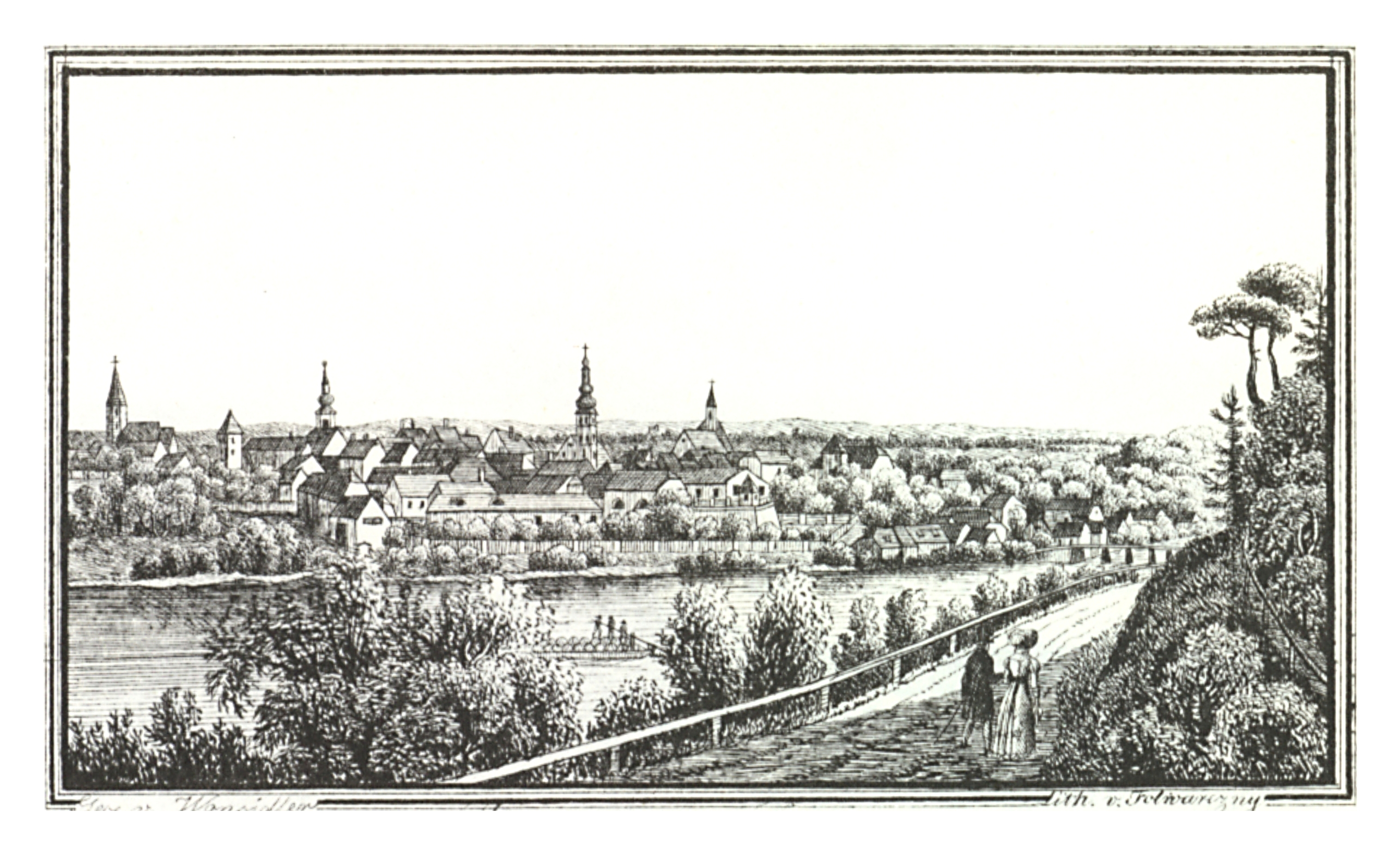 J. F. Kaiser - lithographirte Ansichten der Steyermärkischen Städte, Märkte und Schlösser Graz, 1825 Joseph Franz Kaiser (1786–1859) Alternative names J. F. KaiserDescriptionAustrian printer and editorDate of birth/death 11 March 1786 19 September 1859Location of birth/death Graz (Styria) GrazAuthority control : Q1499963 VIAF: 30629353 ISNI: 0000 0000 3083 0153 LCCN: n87141671 GND: 129880159 NLP: A24960305 WorldCat creator QS:P170,Q1499963 Scanprojekt Community Projektbudget 2012 This scan or this PDF-file was created within the GLAM-project Bookscanning, supported by Wikimedia Germany and Wikimedia Austria as a part of the community-project to capture books, documents and pictures which are not eligible to copyright or for which the copyright has expired. This document describes or depicts an object which is located in Austria today. Send requests for uncompressed scans to Hubertl. This work is in the public domain in its country of origin and other countries and areas where the copyright term is the author's life plus 100 years or less. You must also include a United States public domain tag to indicate why this work is in the public domain in the United States. This file has been identified as being free of known restrictions under copyright law, including all related and neighboring rights.